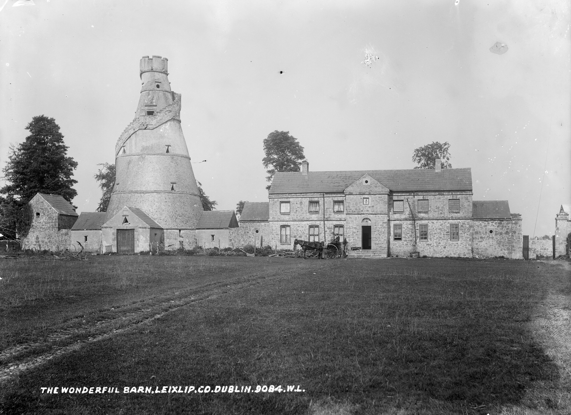 This striking structure at Leixlip in Co. Kildare really does look wonderful… Photographer: Almost certainly Robert French of Lawrence Photographic Studios , Dublin Date: Circa 1900?? NLI Ref.: L_ROY_09084